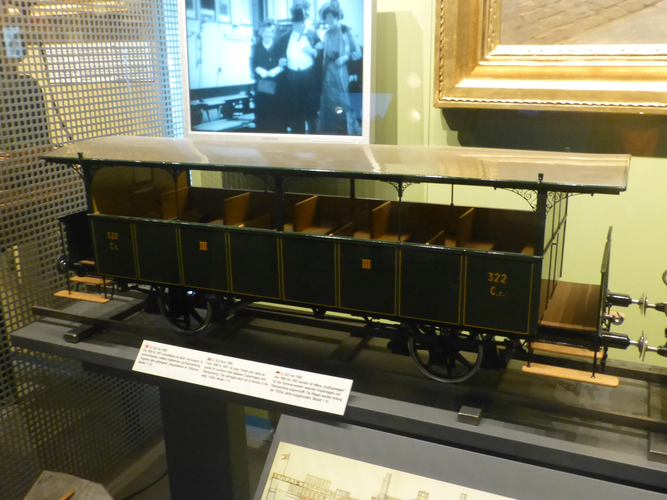 Model of the railway coach SJS Cc 322 from 1880 in Danmarks Jernbanemuseum.